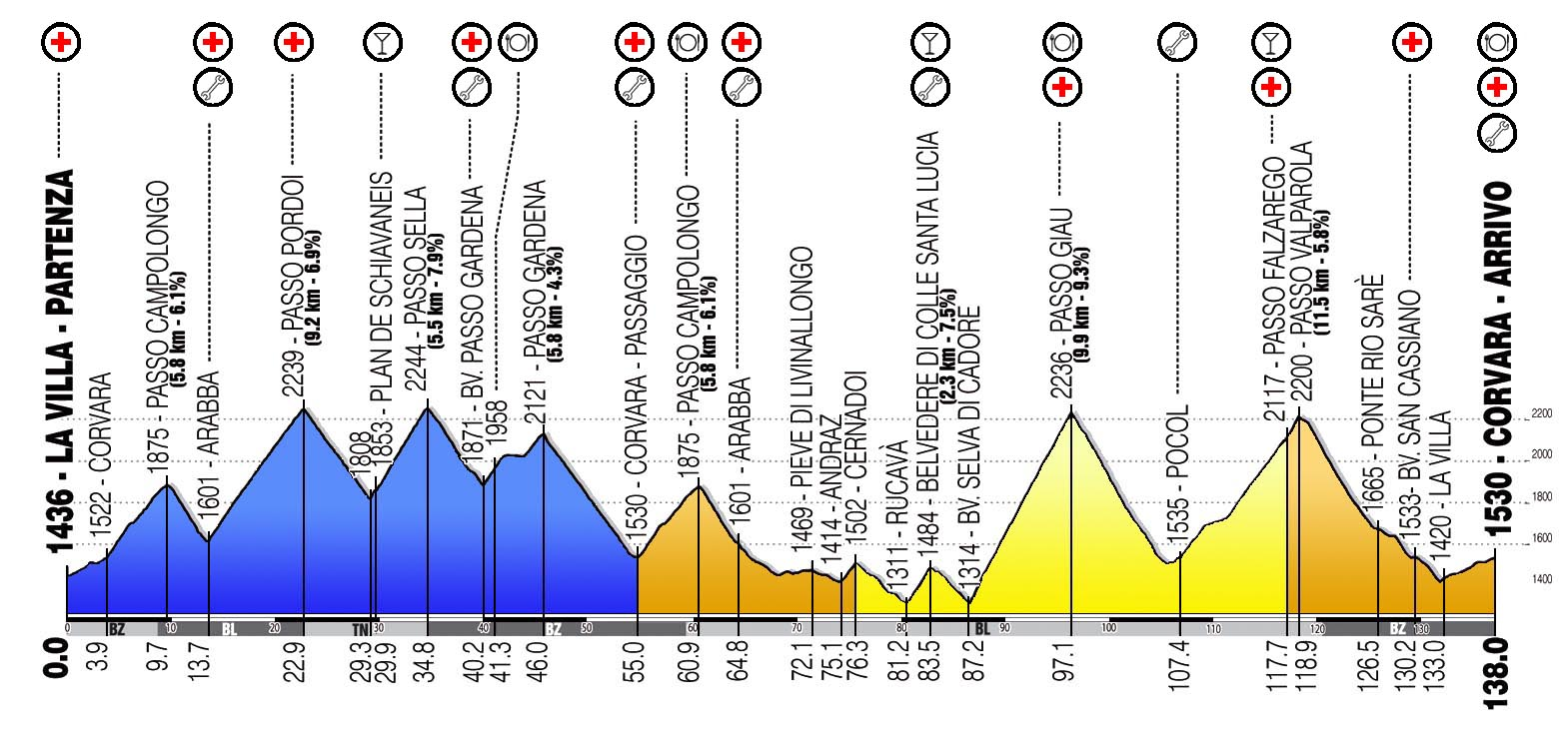 Profile/ Altidtudes of the longest course, the Maratona